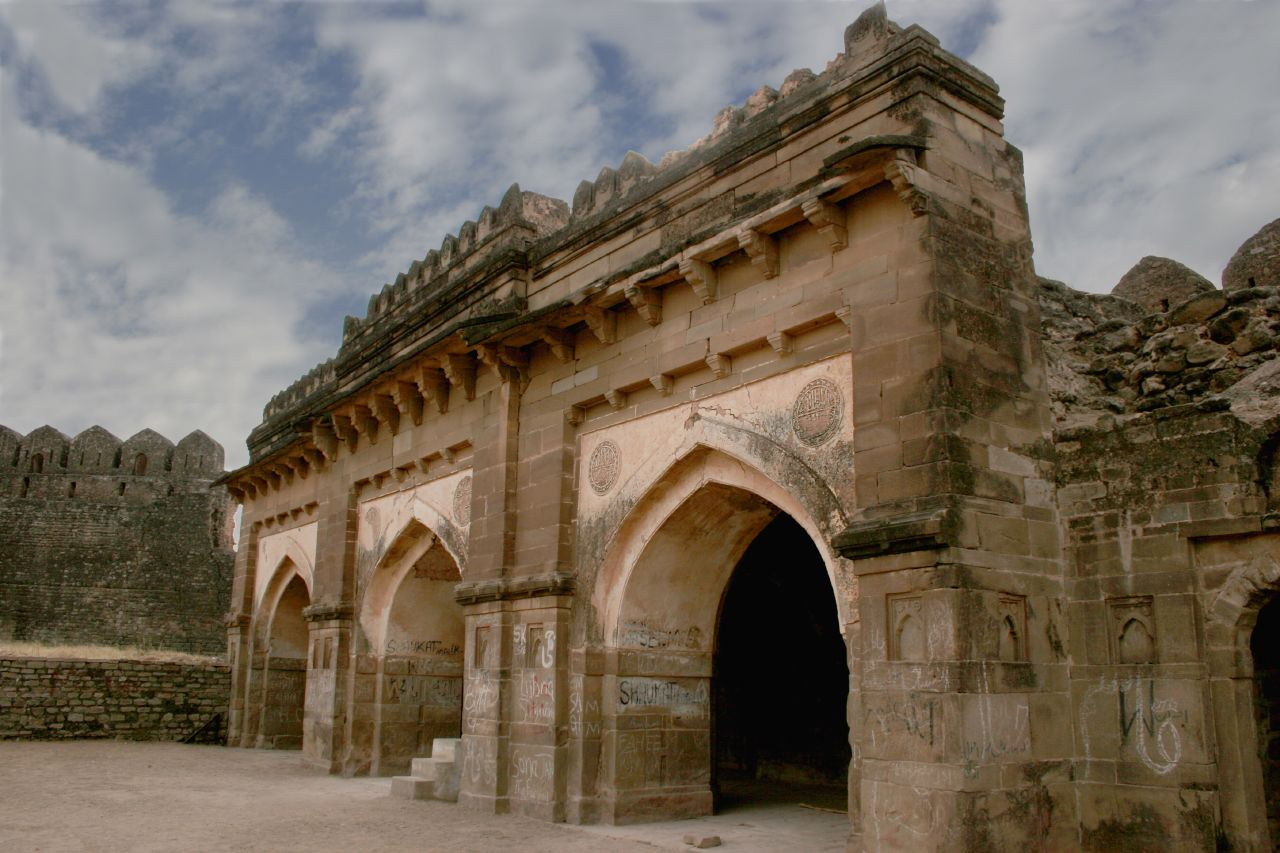 Shahi Masjid Rohtas Fort Jhelum